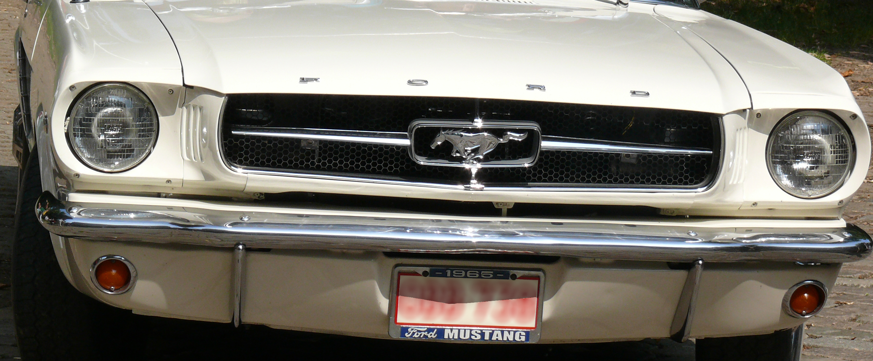 A 1965 Ford Mustang.